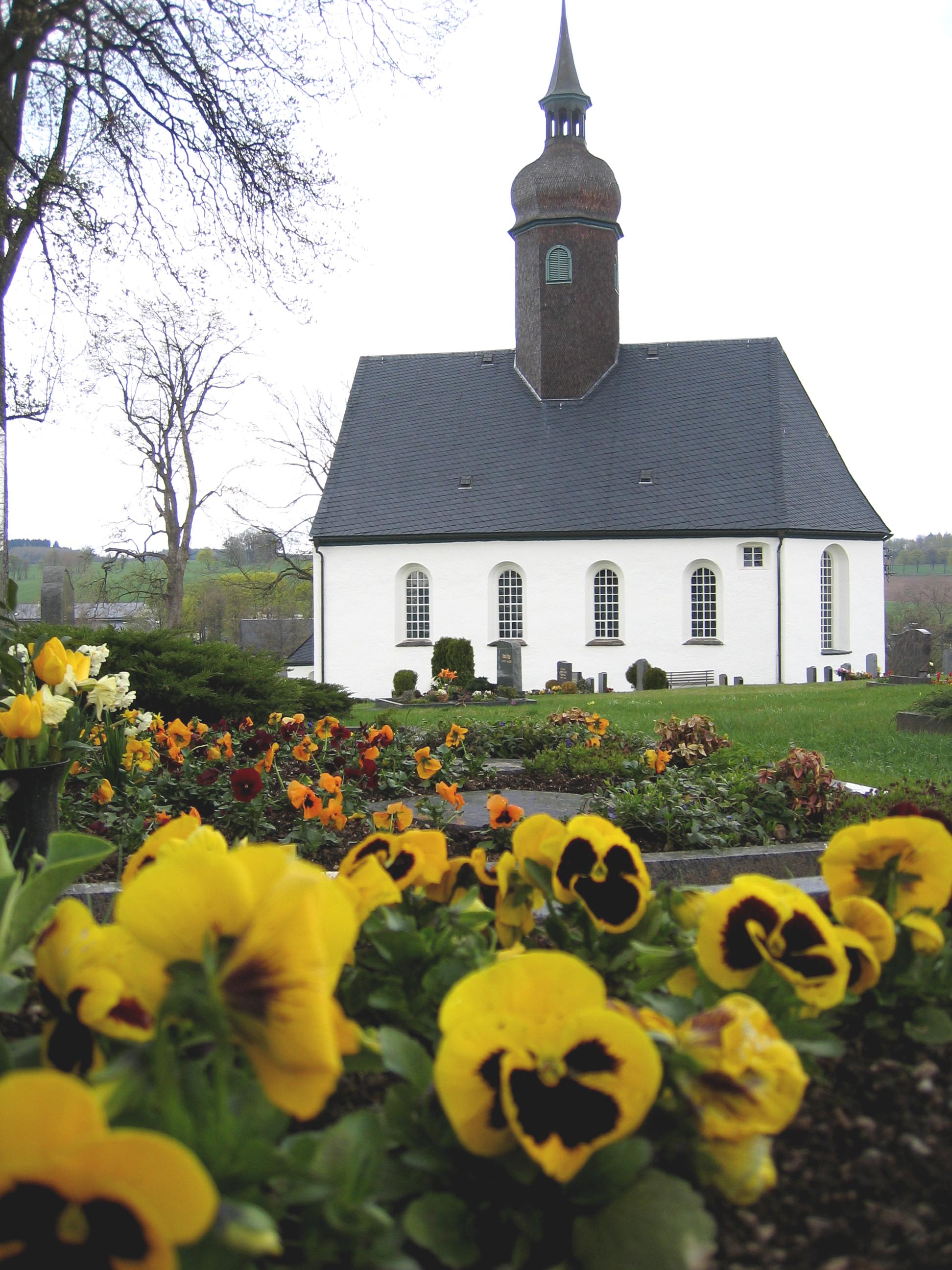 Cämmerswalde - Kirche